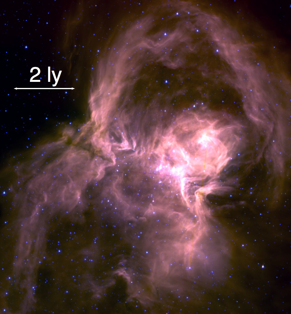 Spitzer IRAC mosaic of the W40 (=Sh 2-64) star-forming region. Red: 8µm; Green: 5.8µm; Blue: 3.6µm